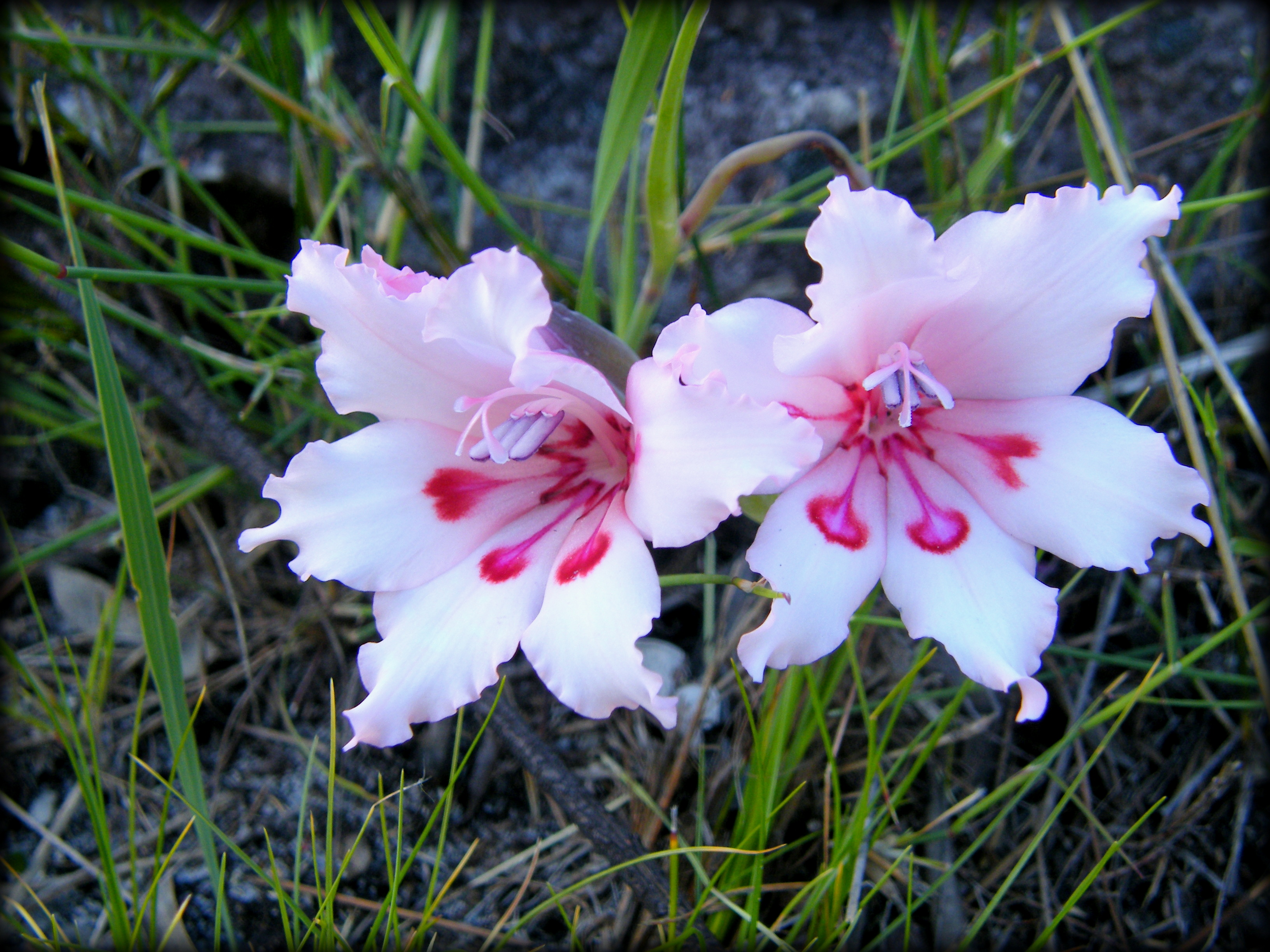 Kleinmond South Africa